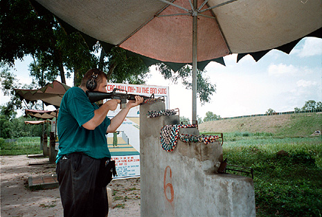 A shooting range at the Cu Chi Tunnels in Vietnam. Visitors to the popular tourist attraction can shoot an M 16 for US$1 a round (at that time).